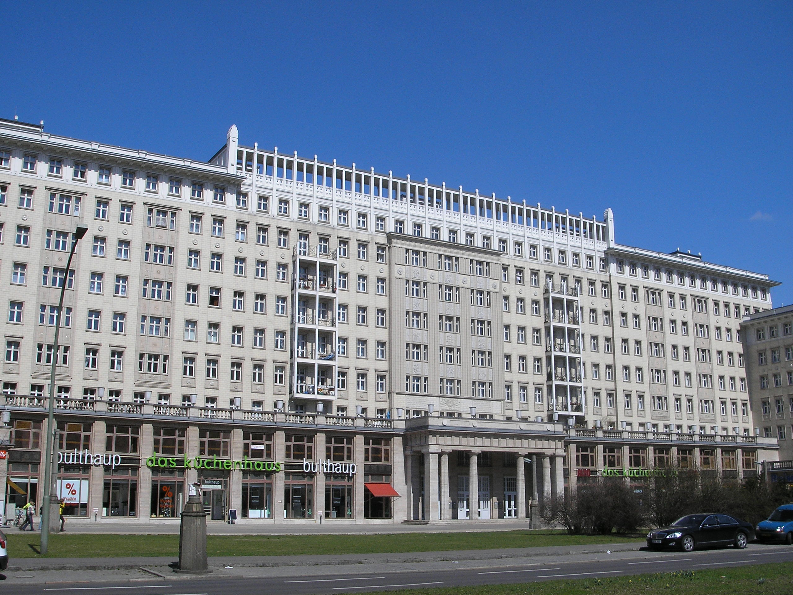 View on Block C North on Karl-Marx-Allee in Berlin. Architect Prof. Richard Paulick. Constructed in 1952.